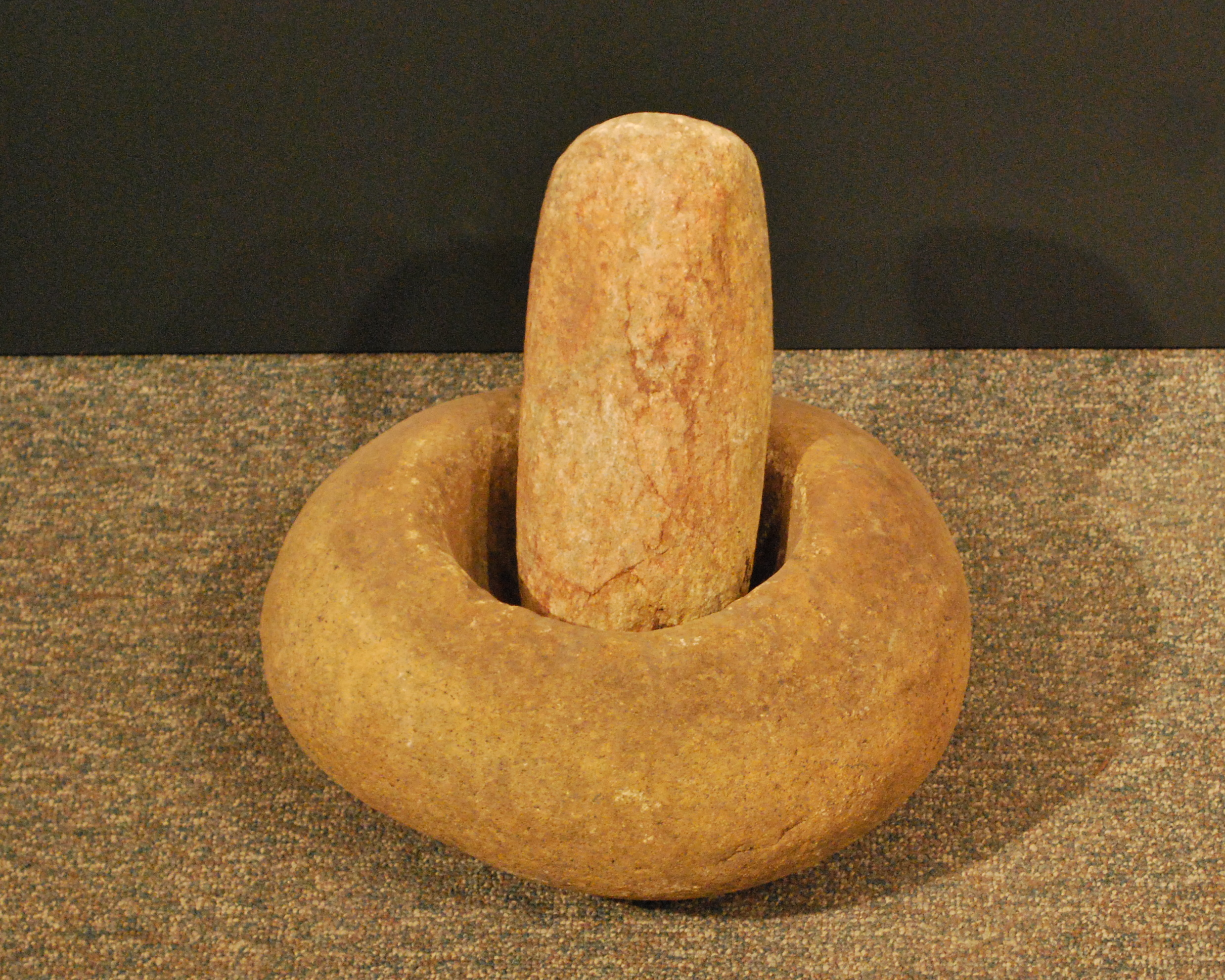 A mortar & pestle on exhibit at the Maidu Interpretive Center.